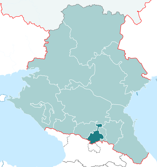 Map of the region with the Republic of North Ossetia-Alania highlighted as part of former Southern Federal District before North Caucasian Federal District was split from it in 2010